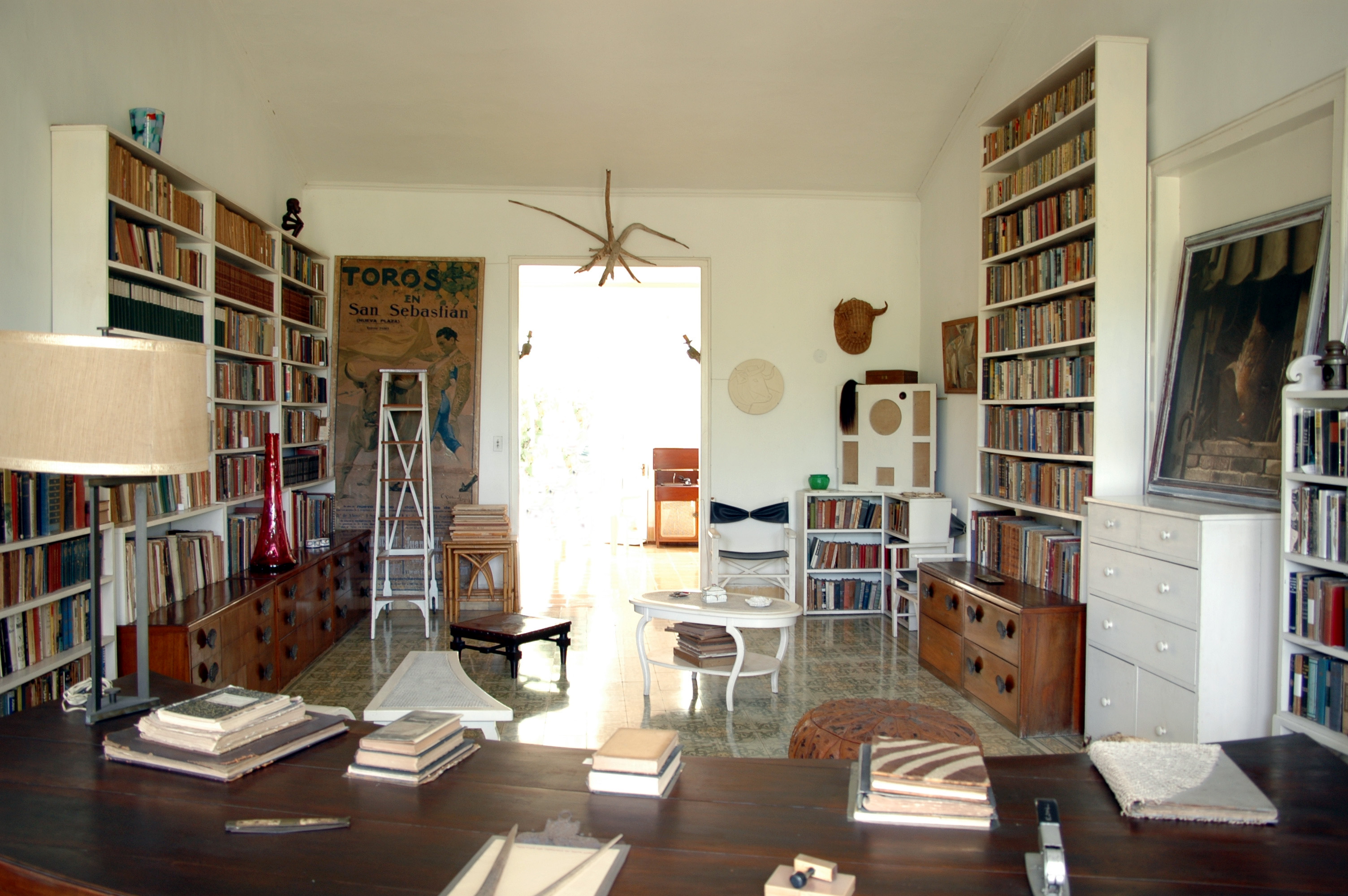 Cuba, San Francisco de Paula, Finca la Vigia, Hemingway's house